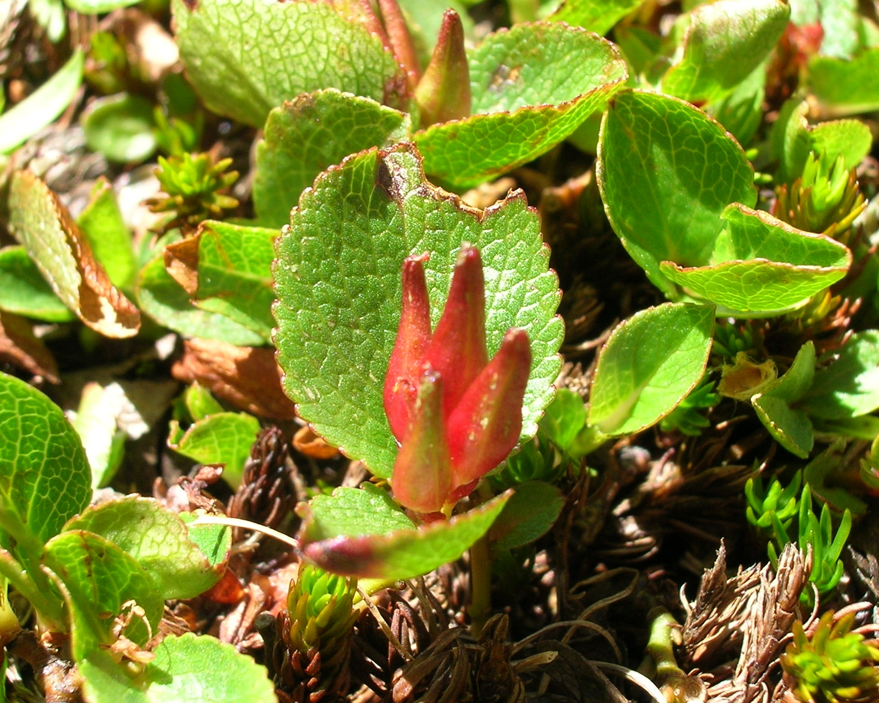 Fruits of Salix herbacea, found in a "Schneetälchen" near Wildgrat (Austria) at 2490 m.